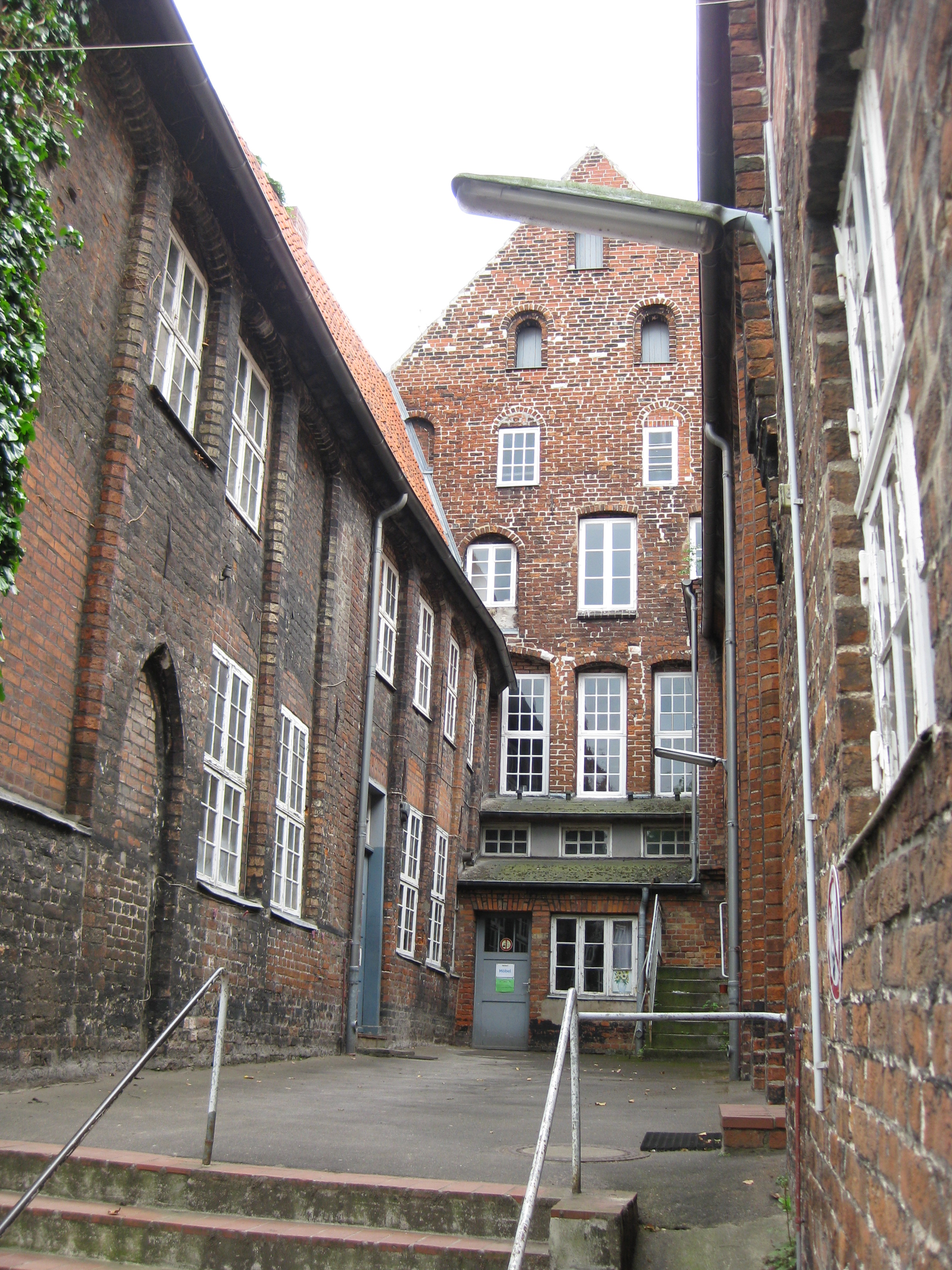 Rear side of the brick gothic beguinage Kranen-Convent in Lübeck.